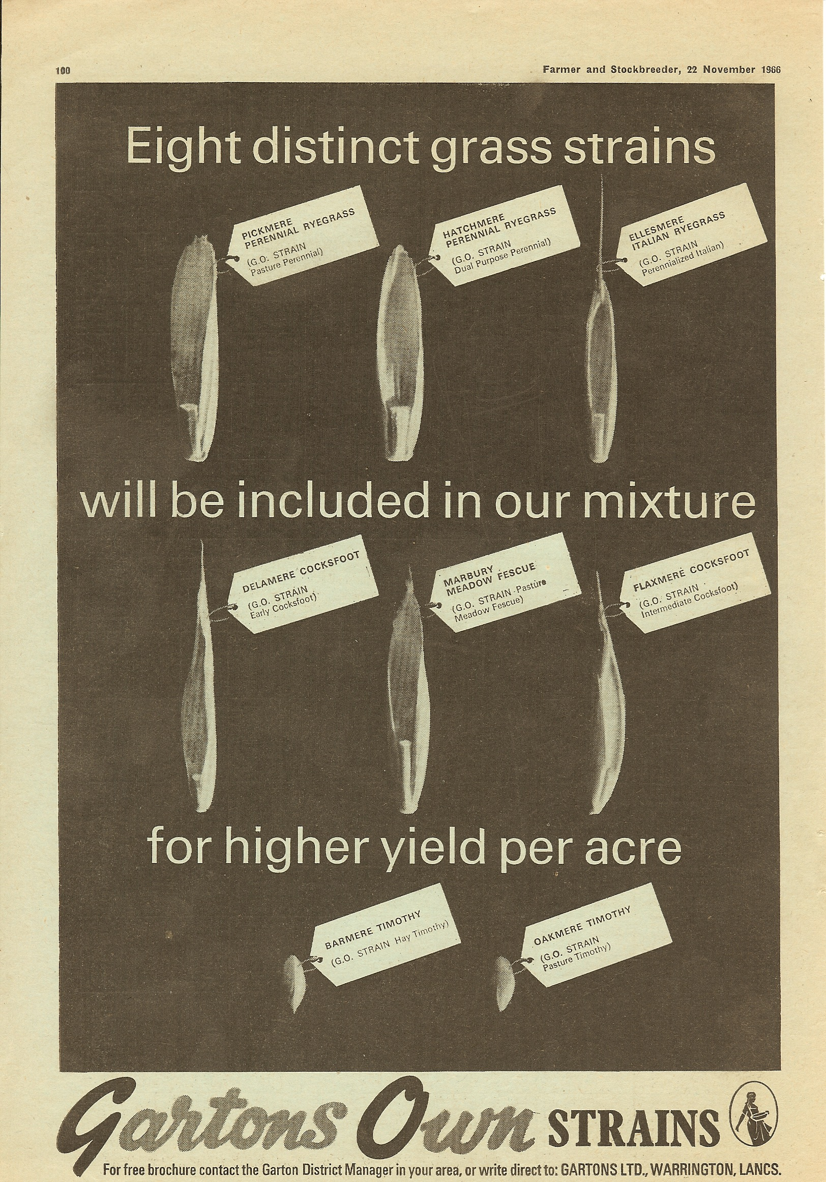 Advertisement for Gartons Limited's grass seeds in 1966.